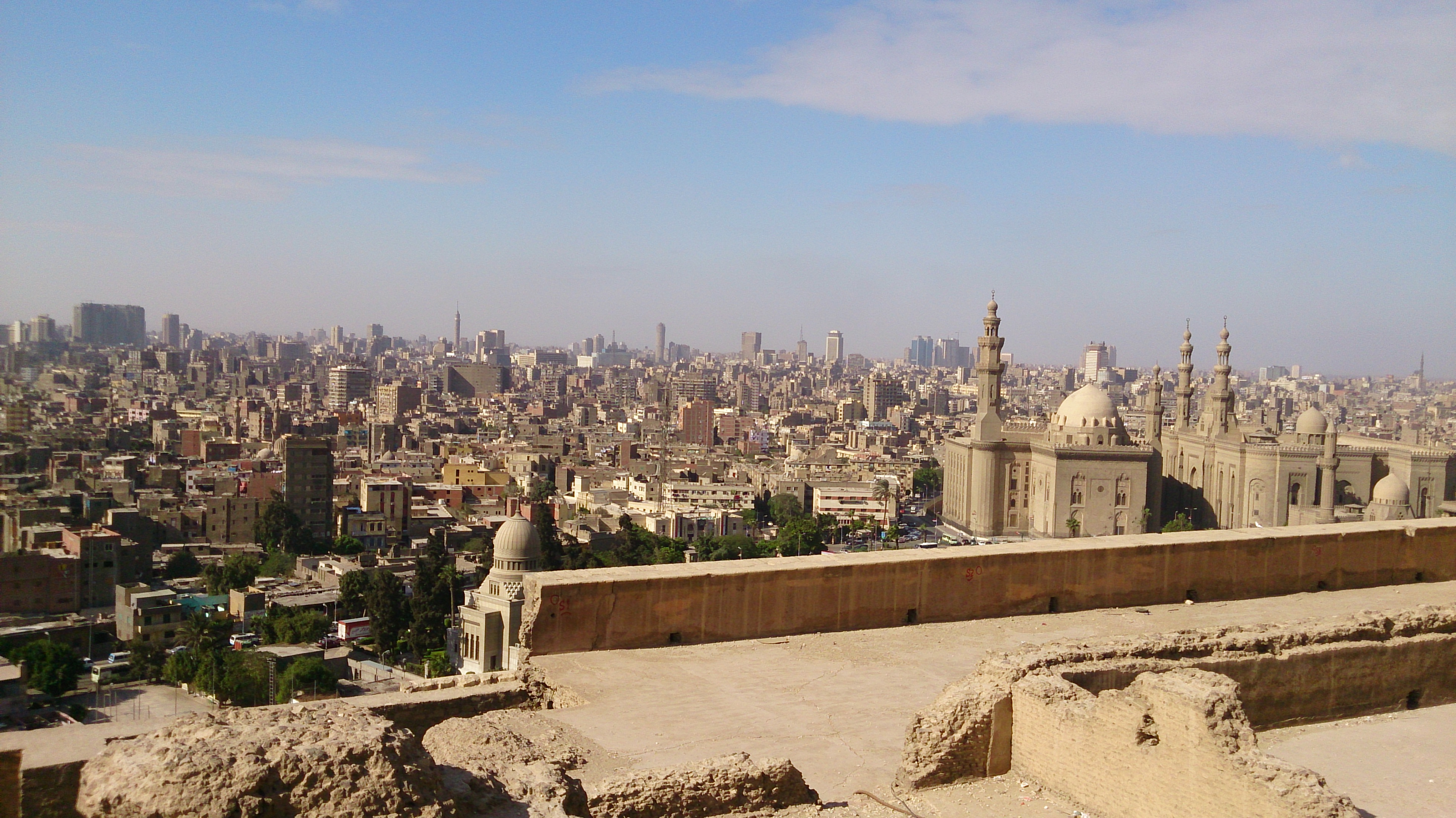 Old Cairo, a view of the old city from the exterior court of Mohammad Ali Mosque, Citadel of Salah AlDeen